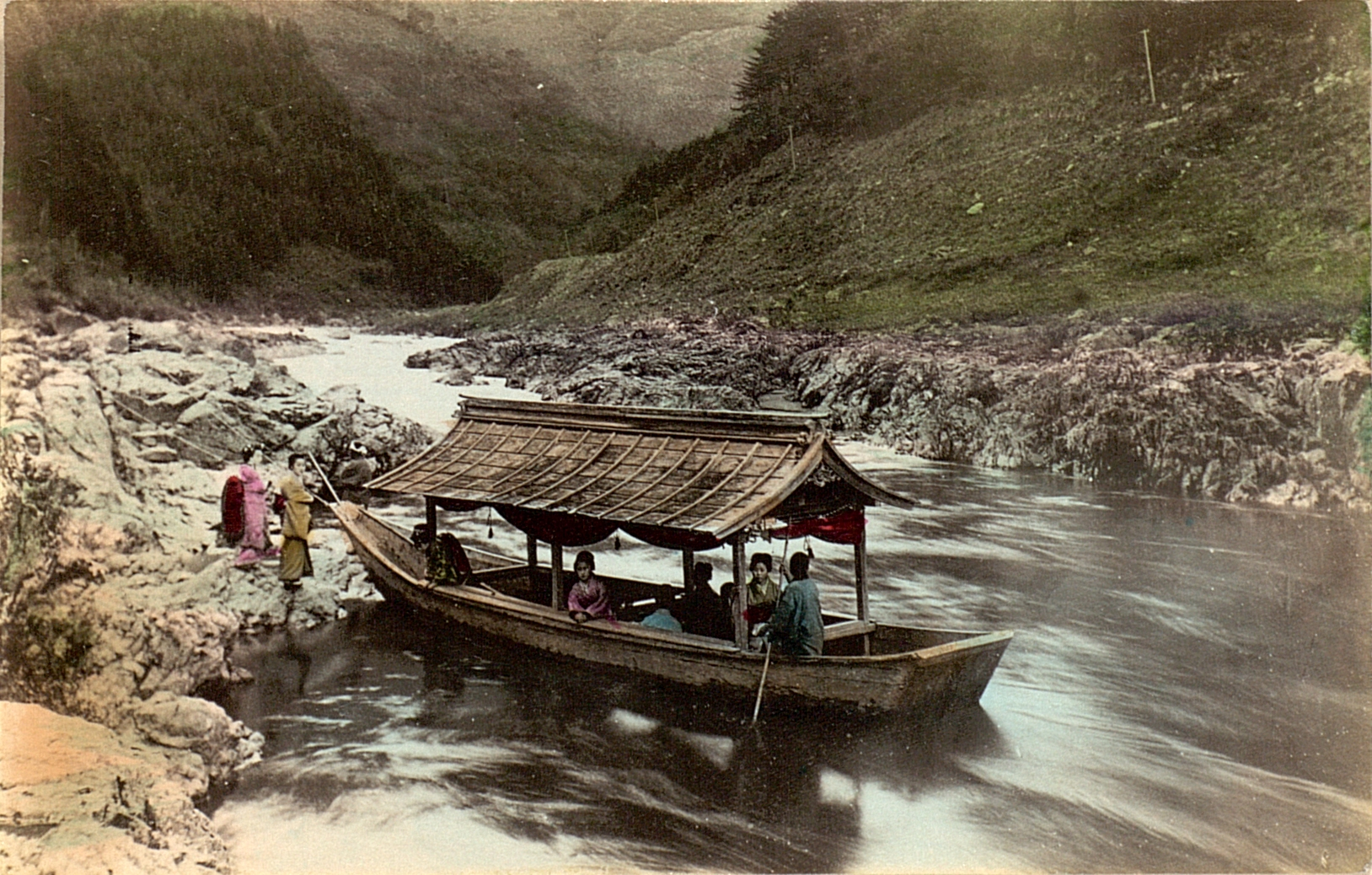 A riverboat with passengers, old postcard